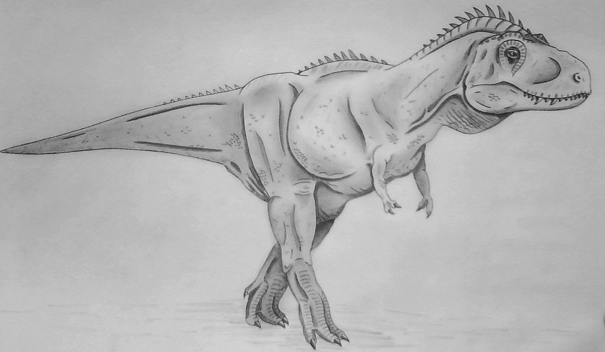 Nanotyrannus